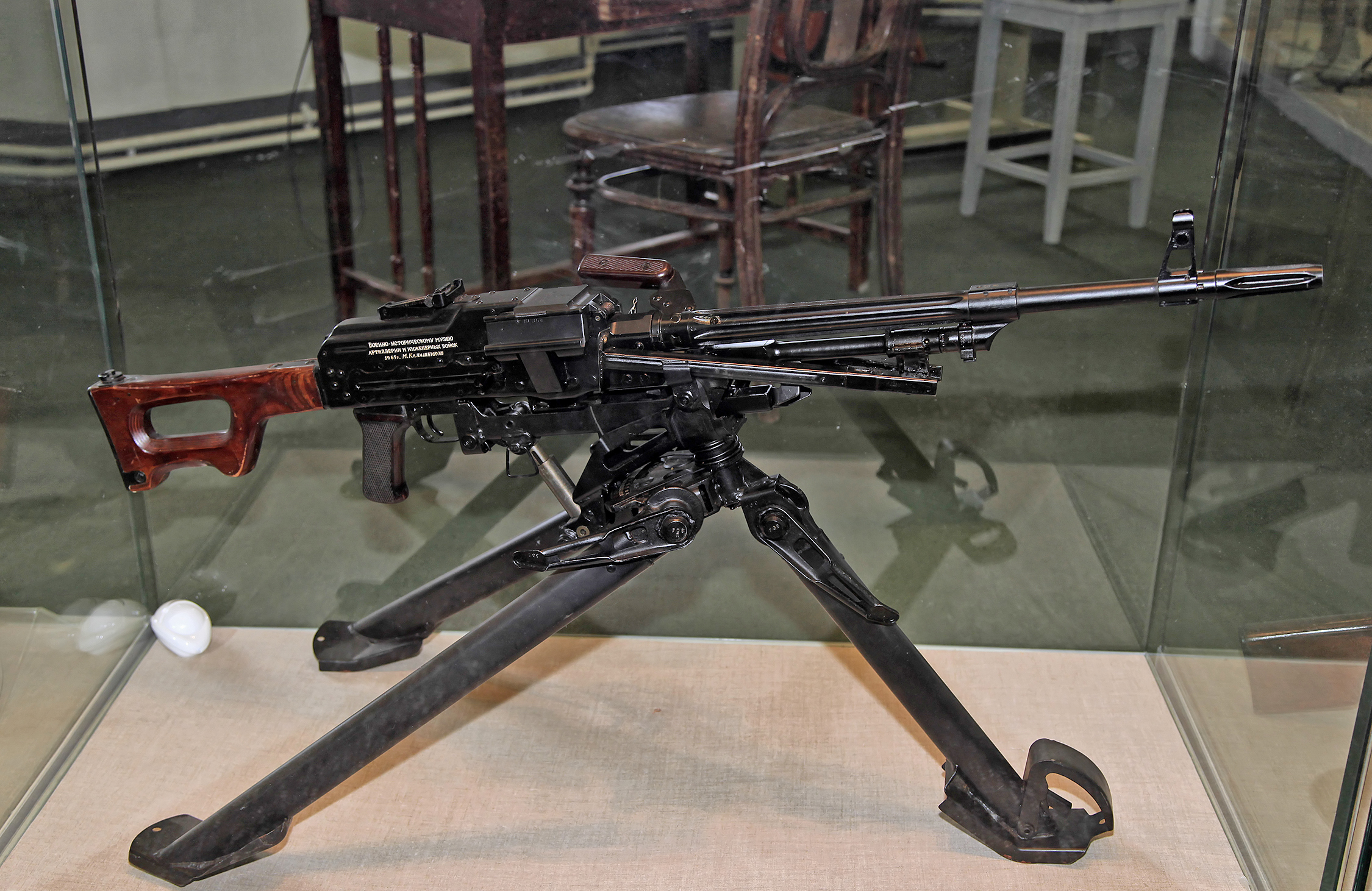 7.62mm machine gun PKS